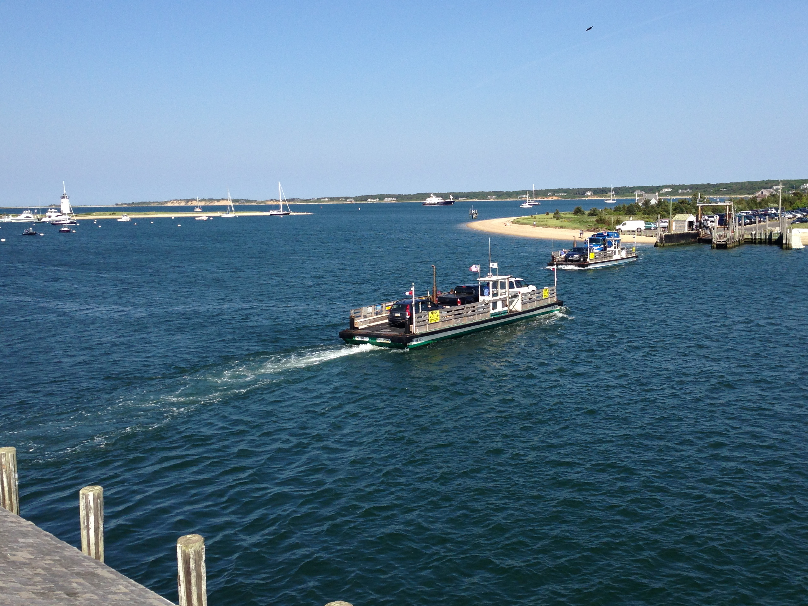 Digital image of Ferries On Time II and On Time III connecting Chappaquidick to Edgartown, Massachusetts